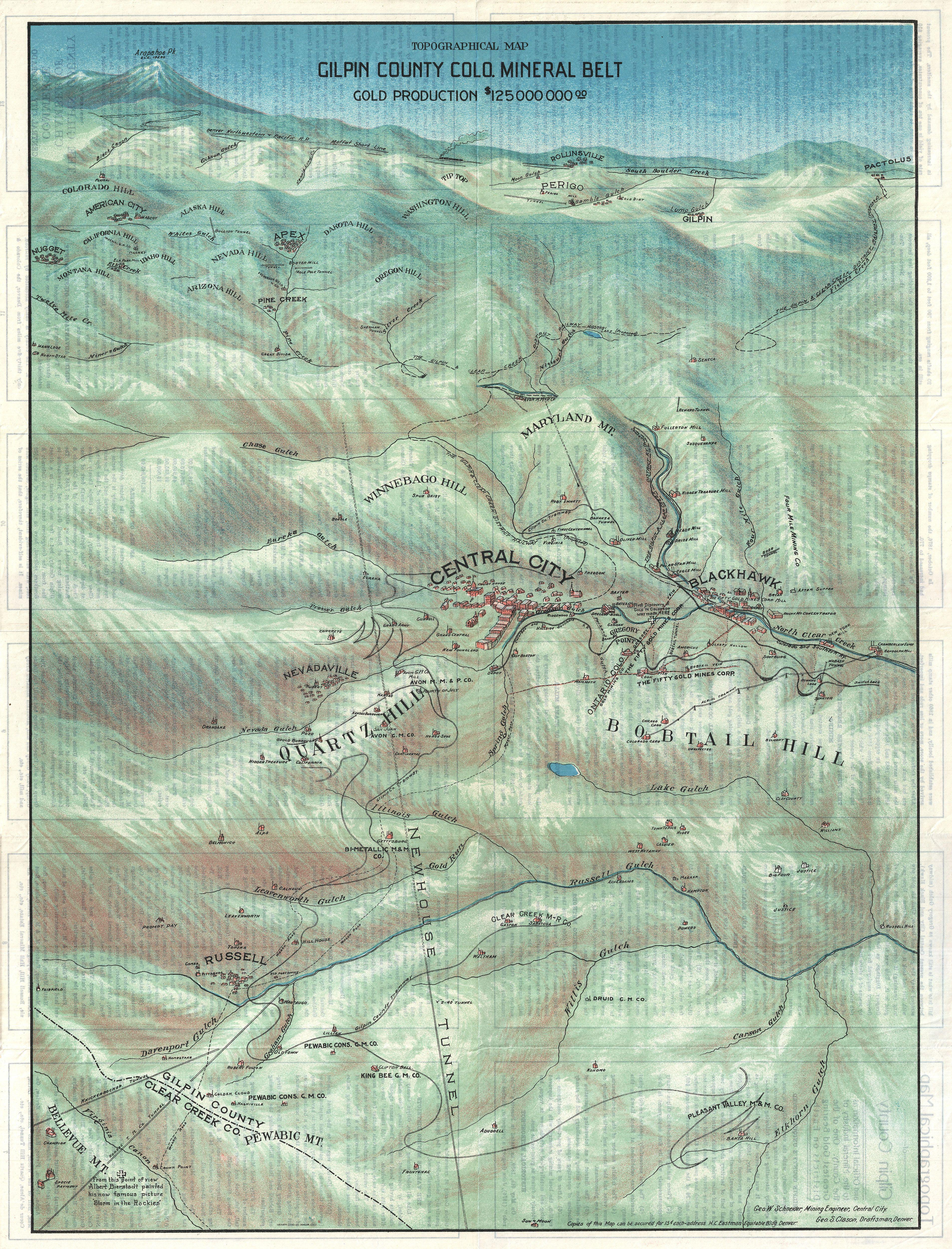 This is a stunning 1904 broadside bird's eye view or map of Gilpin County, Colorado. Centered on Central City, this view extends as far north as Rollinsville and Arapahoe Peak, as far south as Bellevue Mountain, as far east as Randolph Mill, and west as far as Nugget. In 1859 John H. Gregory discovered gold high in the Rocky Mountains near Denver. The subsequent gold rush was one of the richest in U.S. history and contributed significantly to the settling and development of Colorado in the mid to late 19th century. This stunning view, issued by the Gilpin County Chamber of Commerce and the Colorado map publisher George Samuel Clason in 1904, chronicles the history of the Colorado Gold Rush as well as the development of the Central City region. Notes the site where Gregory first discovered of gold, the point where Albert Bierstadt pained his famous Storm in the Rockies, various gold claims, waterways, proposed railroads, mills, and settlements. Identifies this historic gold mining town of Central City, Blackhawk, Russell, Apex, American City, Nugget, Rollinsville, Perigo, Gilpin and Pactolus. Drawn by George W. Schneider, a mining engineer in Central City, and printed as a four color lithograph by George Samuel Clason of Denver, Colorado.